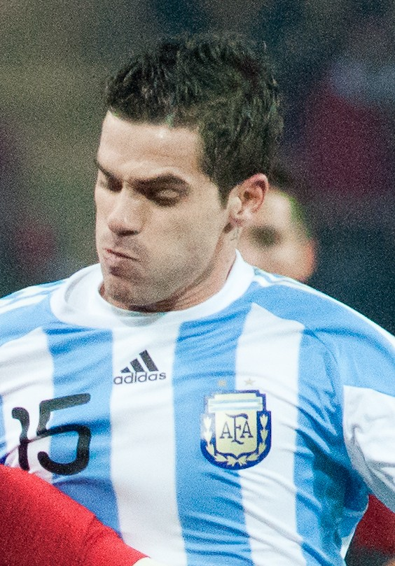 The making of this document was supported by Wikimedia CH. (Submit your project!) For all the files concerned, please see the category Supported by Wikimedia CH. Portugal vs. Argentina, 9th February 2011